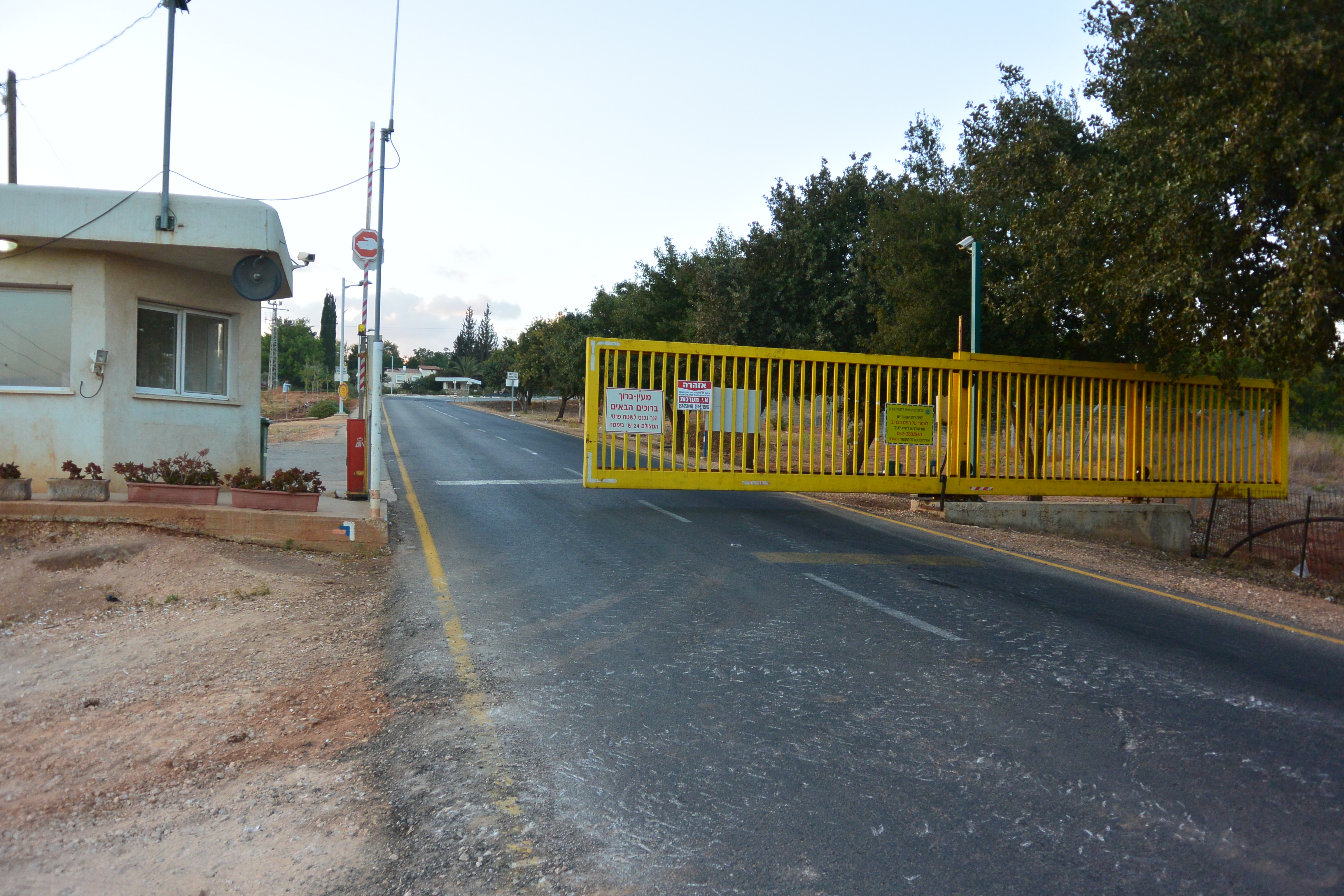 The entrace door of Kibbutz Maayan Barukh (or Maayan Baruch) is closing, after a car has passed. The small office is running without personal, just monitors are shining. Kibbutz-Entrances were established after several terror groups (its close to Lebanes border) attacked the settlements.